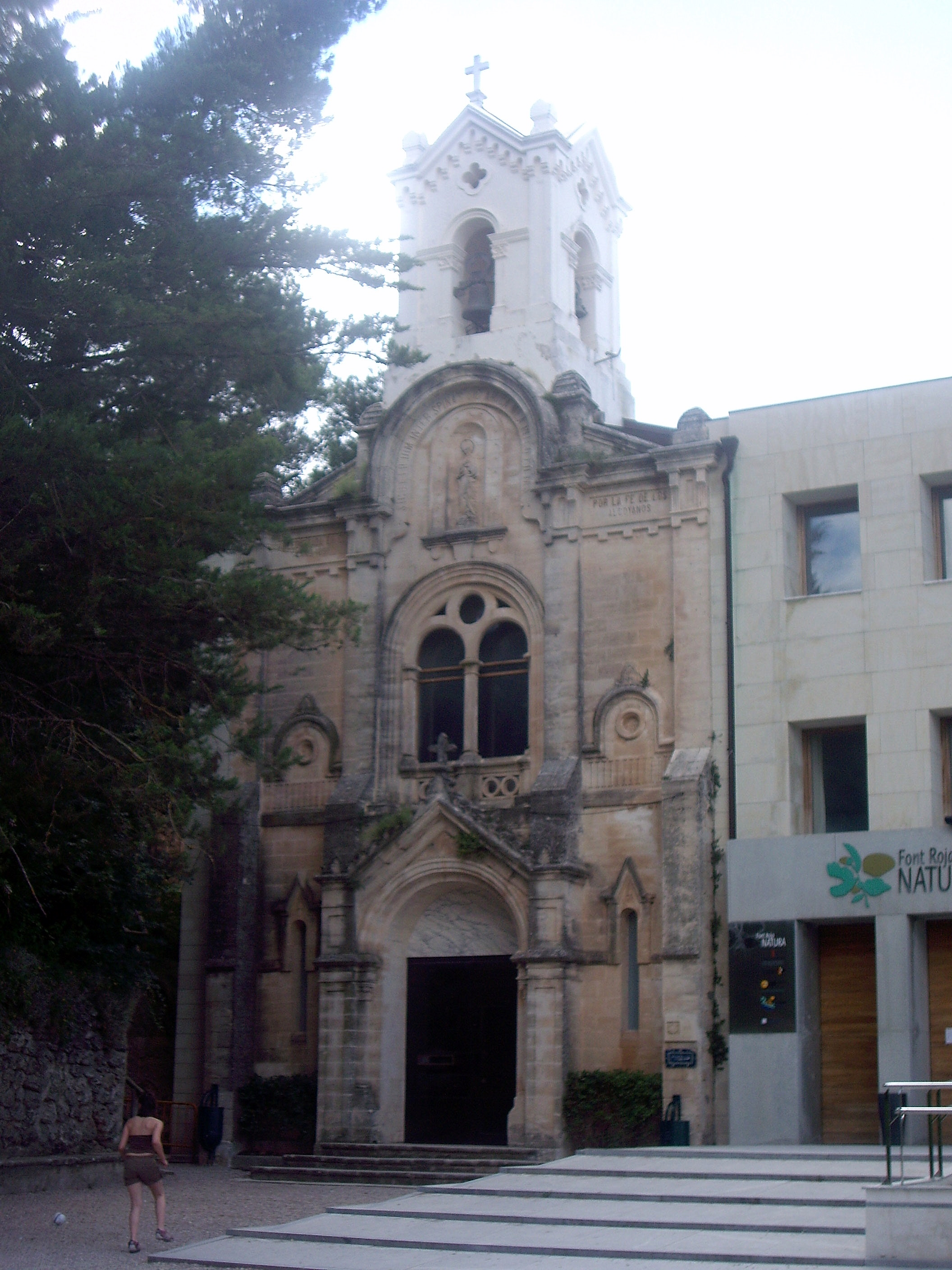 The facade of the chapel of the Font Roja (Alcoi)